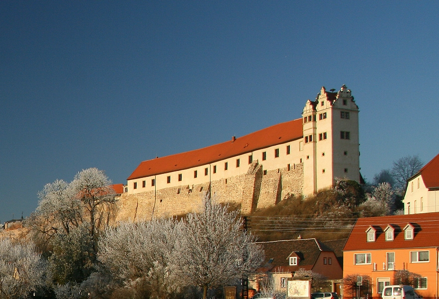 View of Wettin Castle